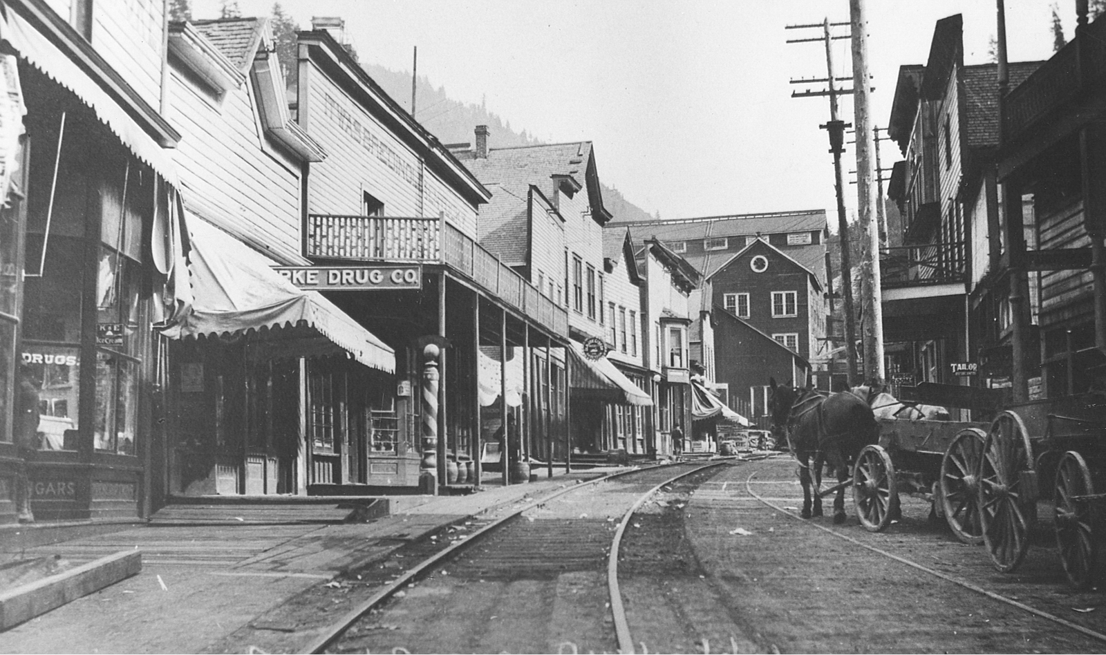 Burke, Idaho circa 1891